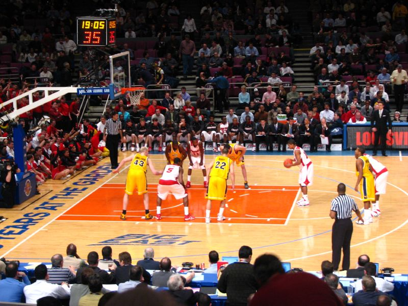 Louisville Cardinals vs West Virginia Mountaineers, Madison Square Garden